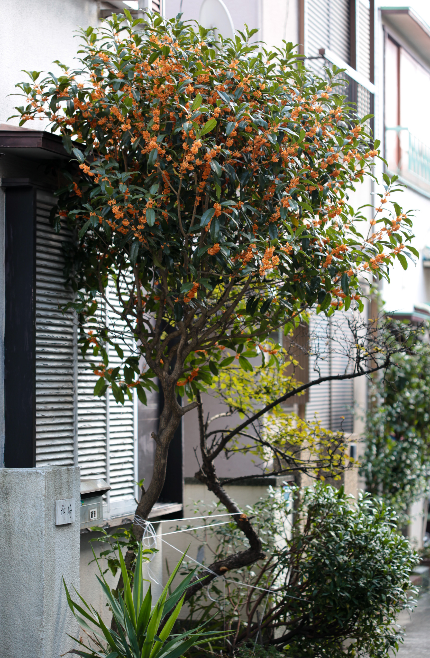 Osmanthus fragrans in full bloom. Shot in Kobe, Japan.